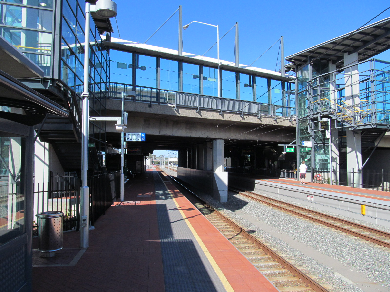 Main section of Canning Bridge station, Perth, Australia.